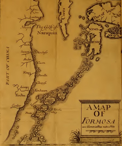 A Map of Formosa by Psalmanazar